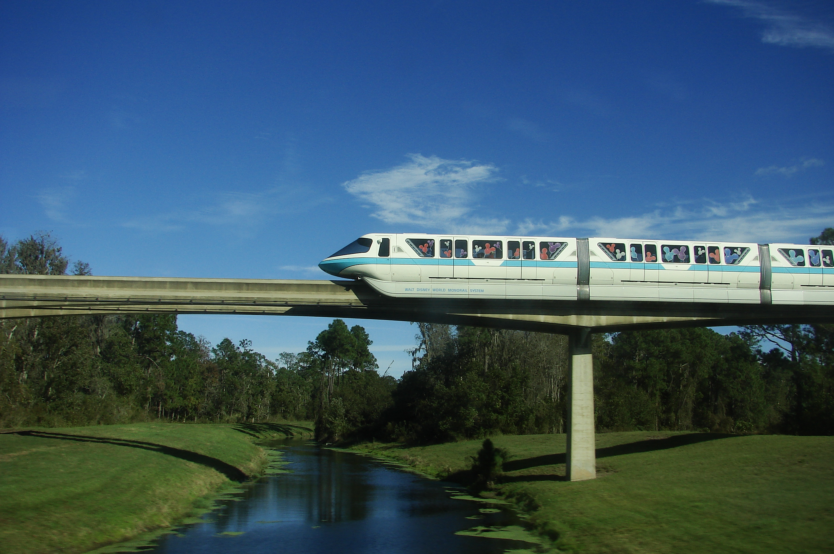 Monorail at Disneyworld's Magic Kingdom in Florida.